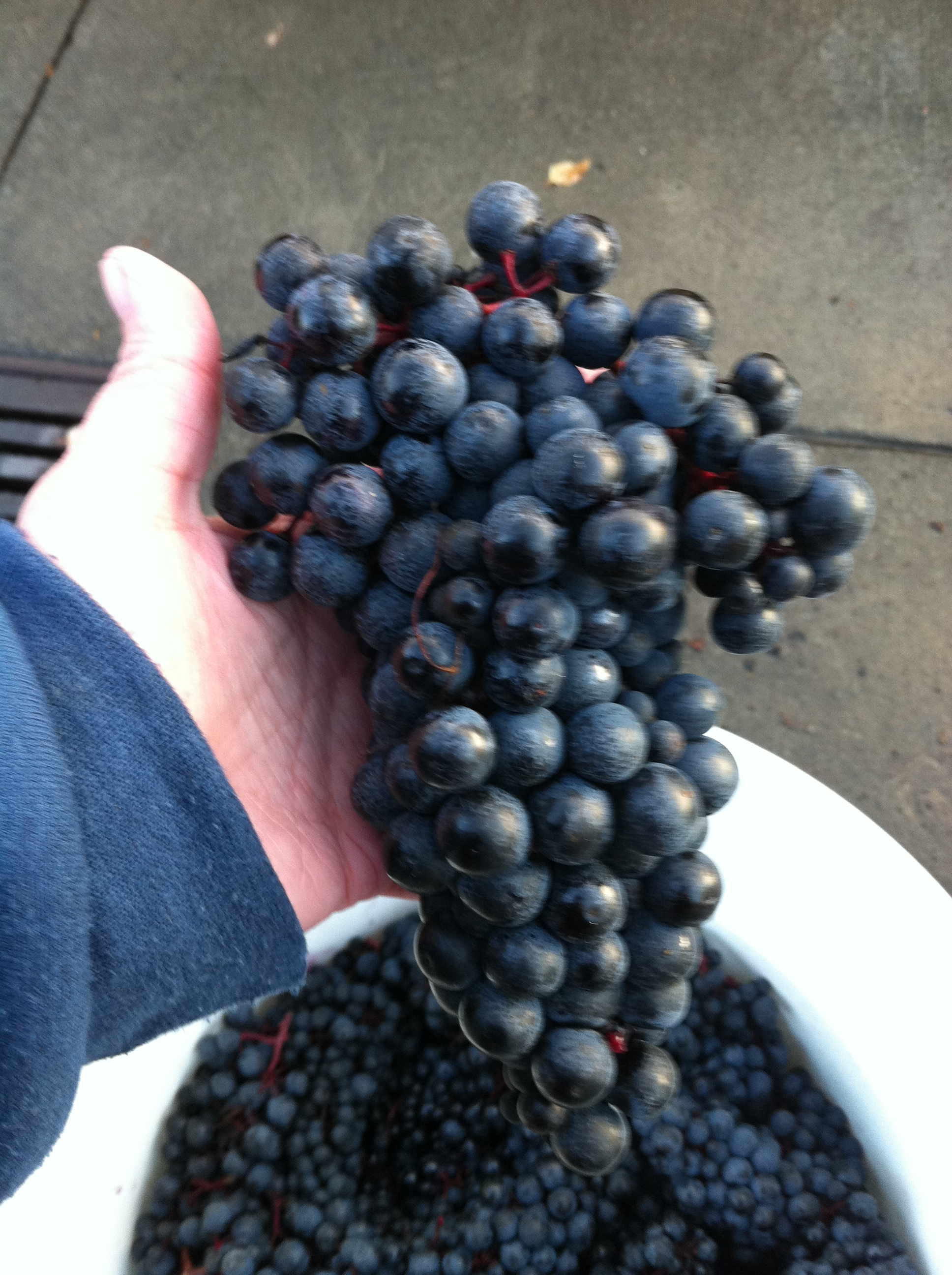 Muscat of Norway grape cluster grown in the Puget Sound AVA of Washington State